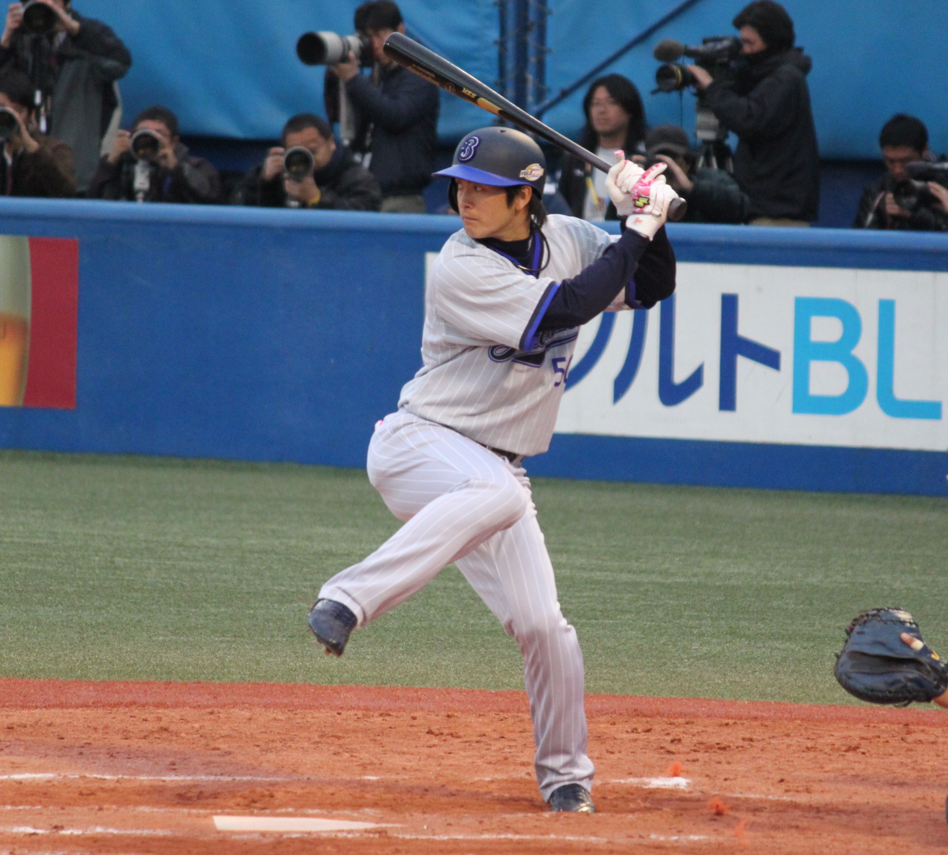 Tatsuya Shimozono, outfielder of the Yokohama BayStars, at Meiji Jingu Stadium.